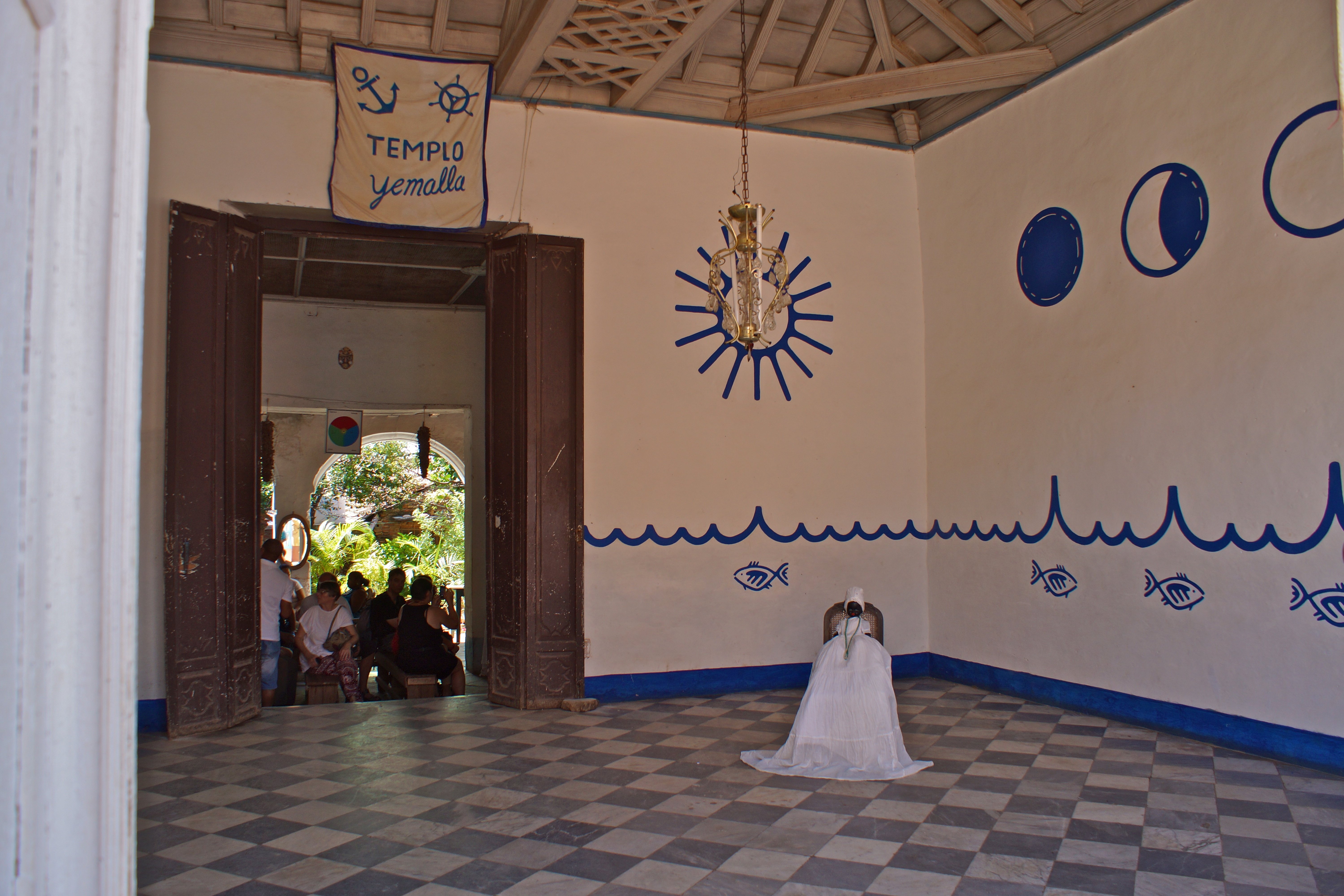 Santeria Temple - Trinidad, Cuba